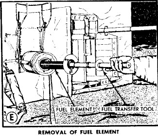 Removal of fuel element from fuel cask